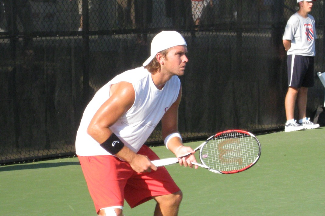 Robert Kendrick at the 2008 Legg Mason Tennis Classic